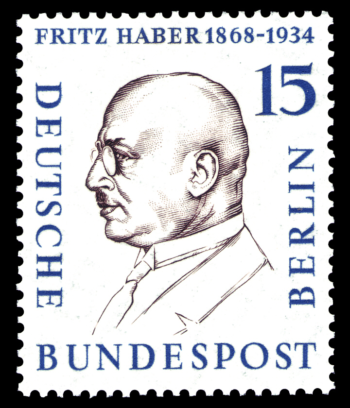 stamp series, men of the history of Berlin II, Fritz Haber (1868-1934)